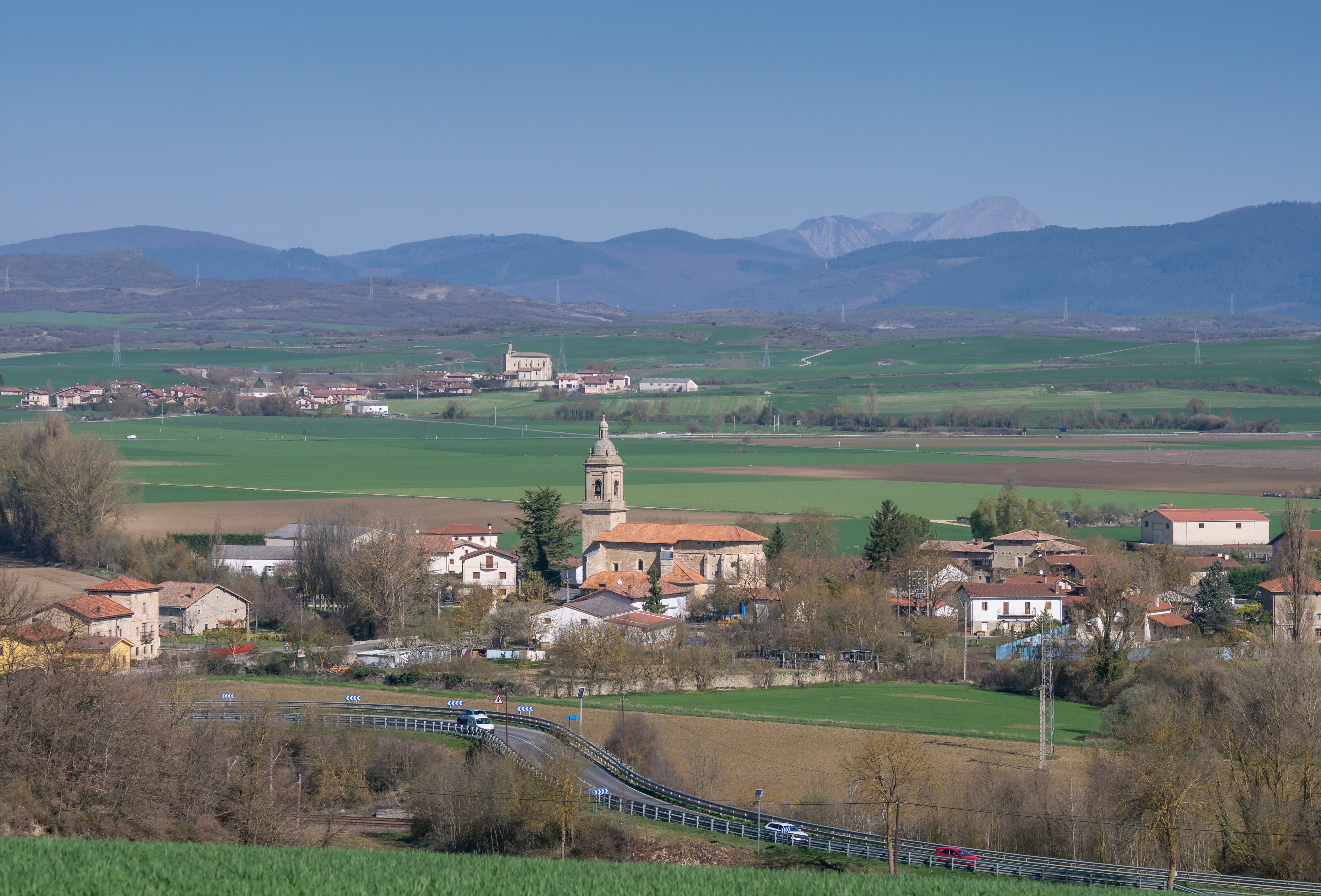 Oreitia. Álava, Basque Country, Spain